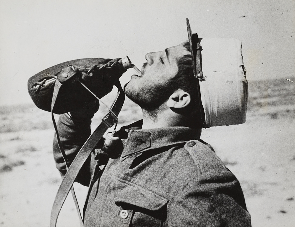 Title: With the free French foroes in the Western Desert: A "poilu" taking a drink after dinner Date Created/Published: [between 1940 and 1950] Medium: 1 photographic print. Reproduction Number: LC-DIG-ds-00728 (digital file from original photograph) Rights Advisory: No known restrictions on publication. Call Number: LOT 11588-3 [item] [P&P] Repository: Library of Congress Prints and Photographs Division Washington, D.C. 20540 USA Notes: Note on photograph front: A Free French Brigade on service in the Middle East comprises Foreign Legion French Colonial troops and other Free French units under the command of General De Larminat and General Koenig. Title from note on item. British official photograph : No. BM. 9207. Picture issued March 1942. Subjects: Infantry--Egypt--Western Desert--1940-1950. Eating & drinking--Egypt--Western Desert--1940-1950. Format: Photographic prints--1940-1950. Collections: Miscellaneous Items in High Demand Bookmark This Record